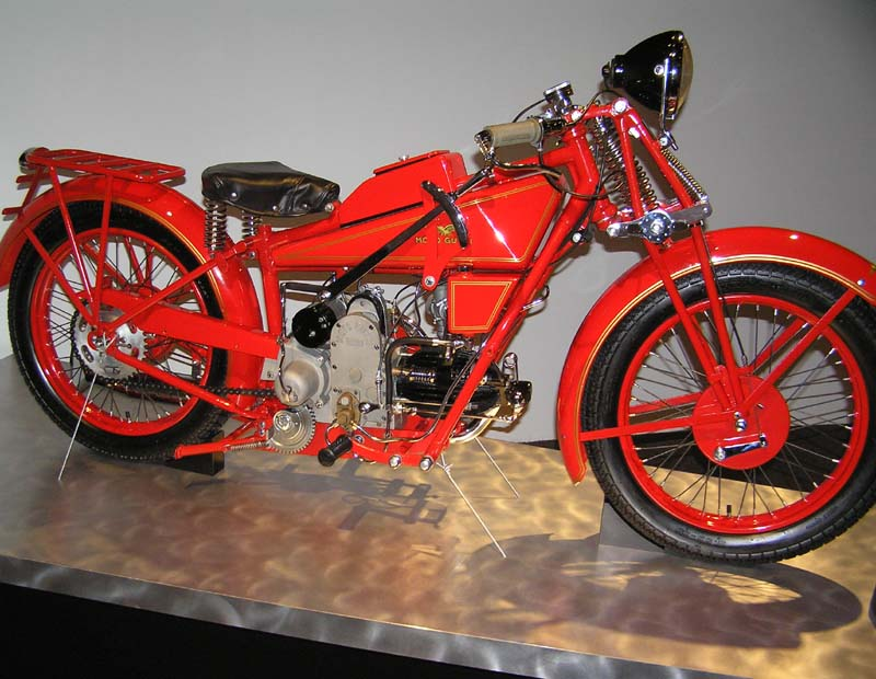 1924 Moto Guzzi C4V - The Art of the Motorcycle - Memphis. 498 cc, bore x stroke 88 x 82 mm. Power: 22 hp @ 5,500 rpm. Top speed: 93 mph (150 km/h). Moto Guzzi SpA, Mandello del Lario, Italy.